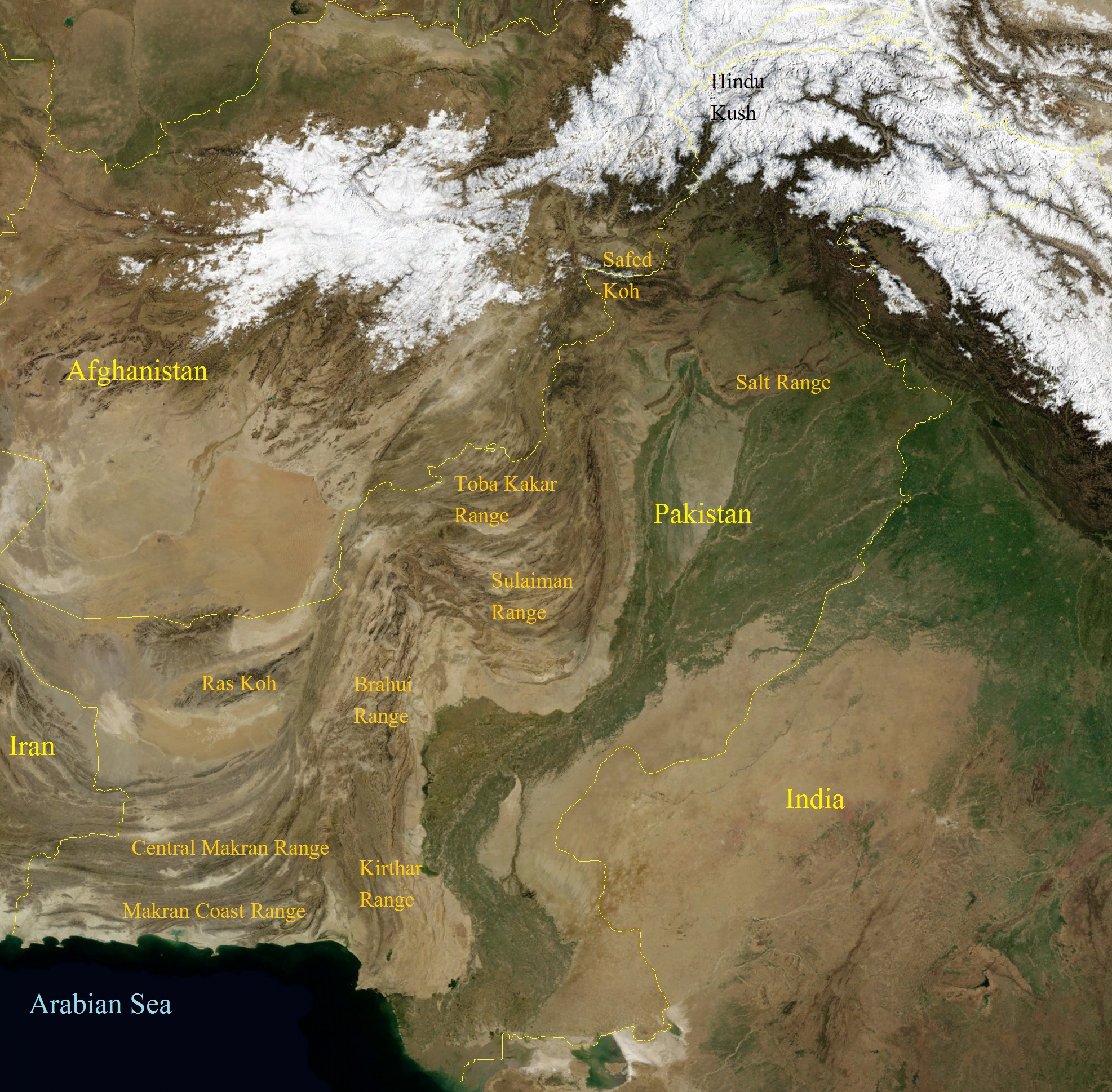 This is a NASA photograph of Pakistan with mountain ranges labeled.